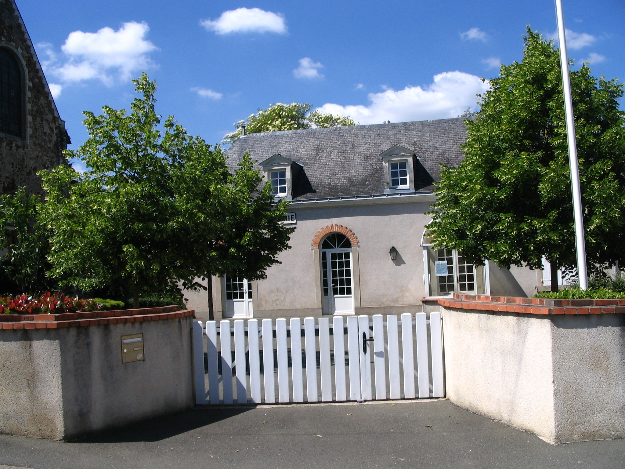 The town hall of Souvigné-sur-Sarthe, Sarthe, France.